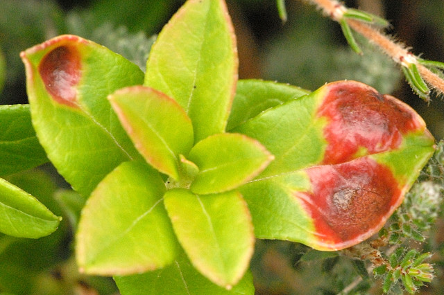 Exobasidium vaccinii from Commanster, Belgium. If you think this is a different taxon, please contact James Lindsey.